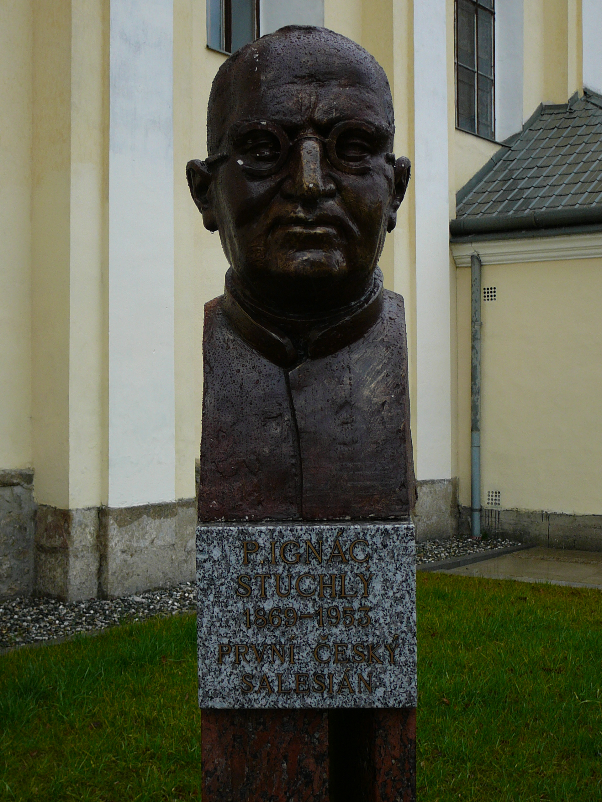 Ignác Stuchlý bust in Fryšták.